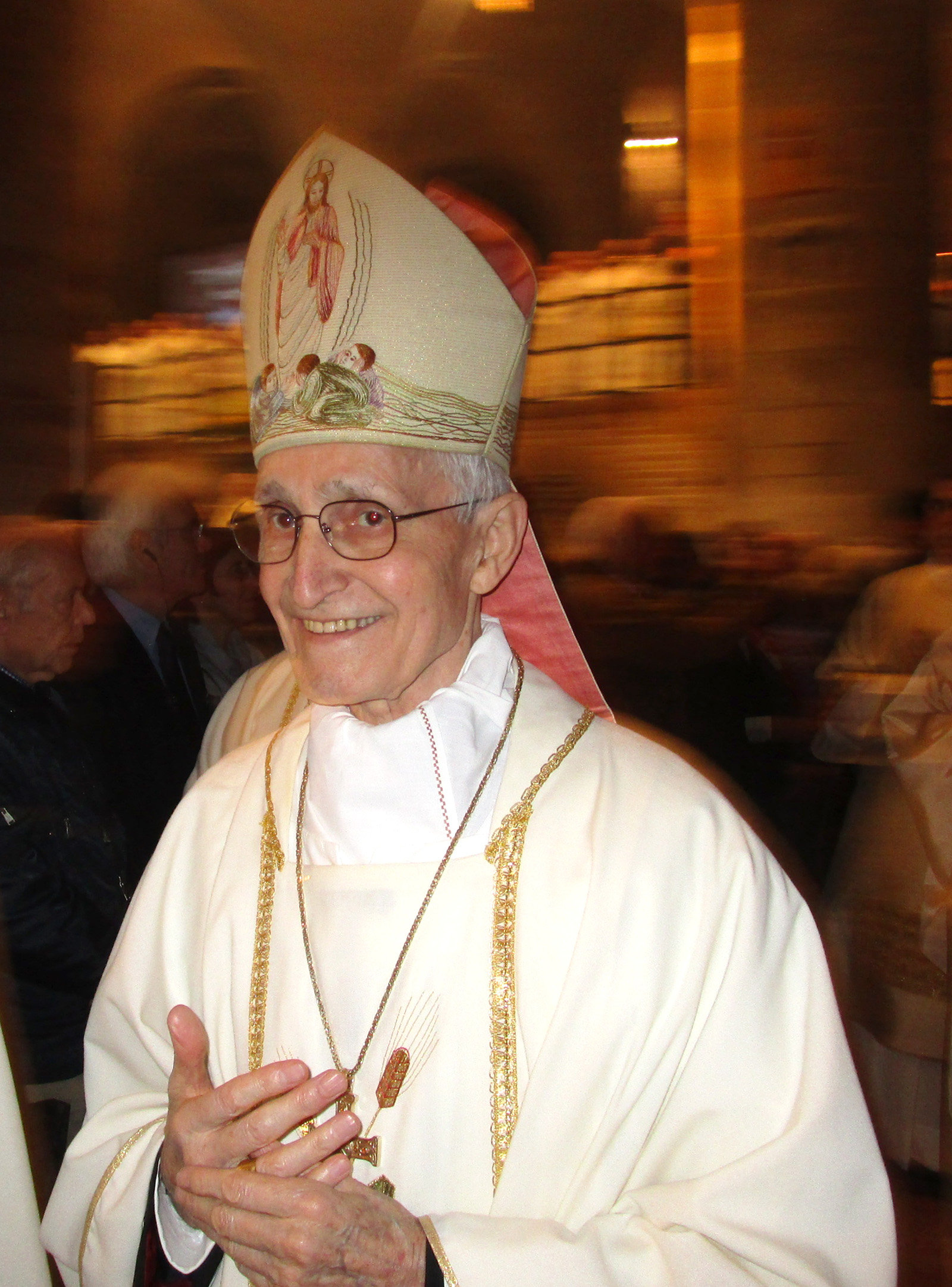 Bassano (Nino Staffieri), bishop emeritus of La Spezia, Italy.